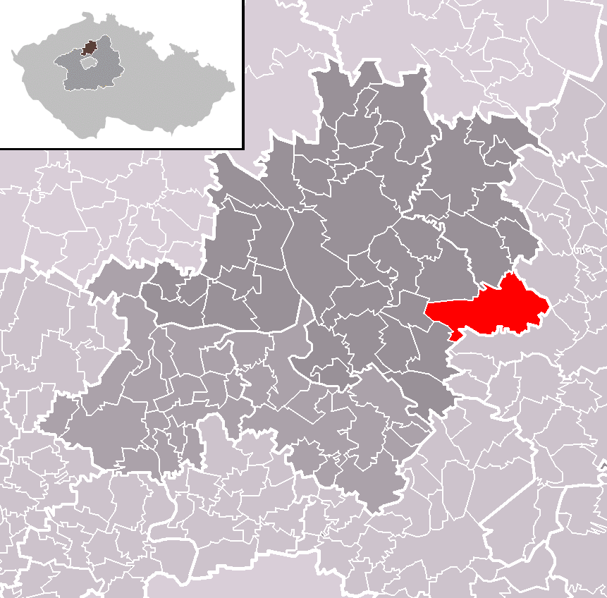 Location of Mělnické Vtelno municipality within Mělník District and administrative area of Mělník as a Municipality with Extended Competence.